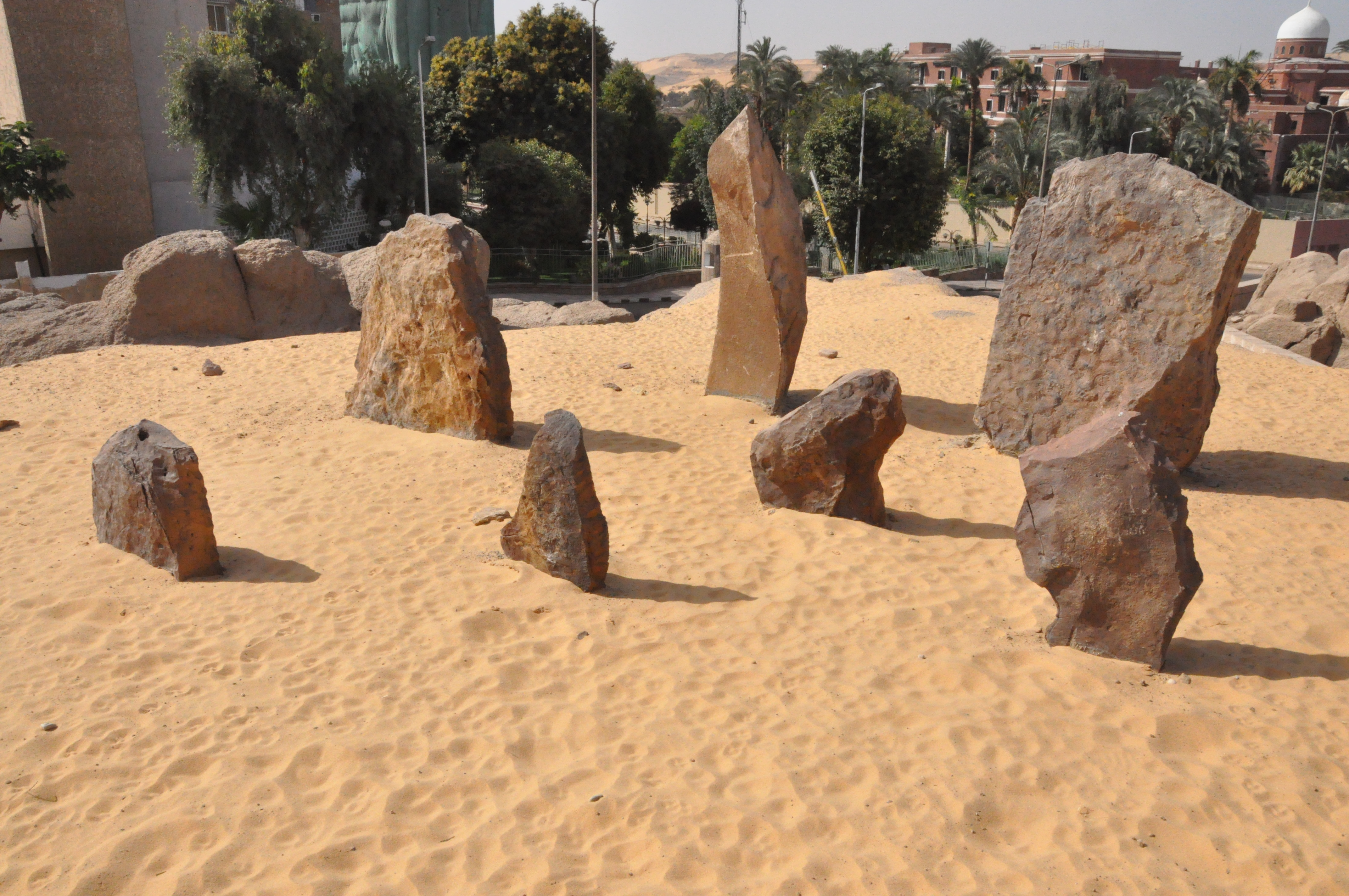 Megaliths from Nabta Playa displaid in the garden of the Aswan Nubia museum